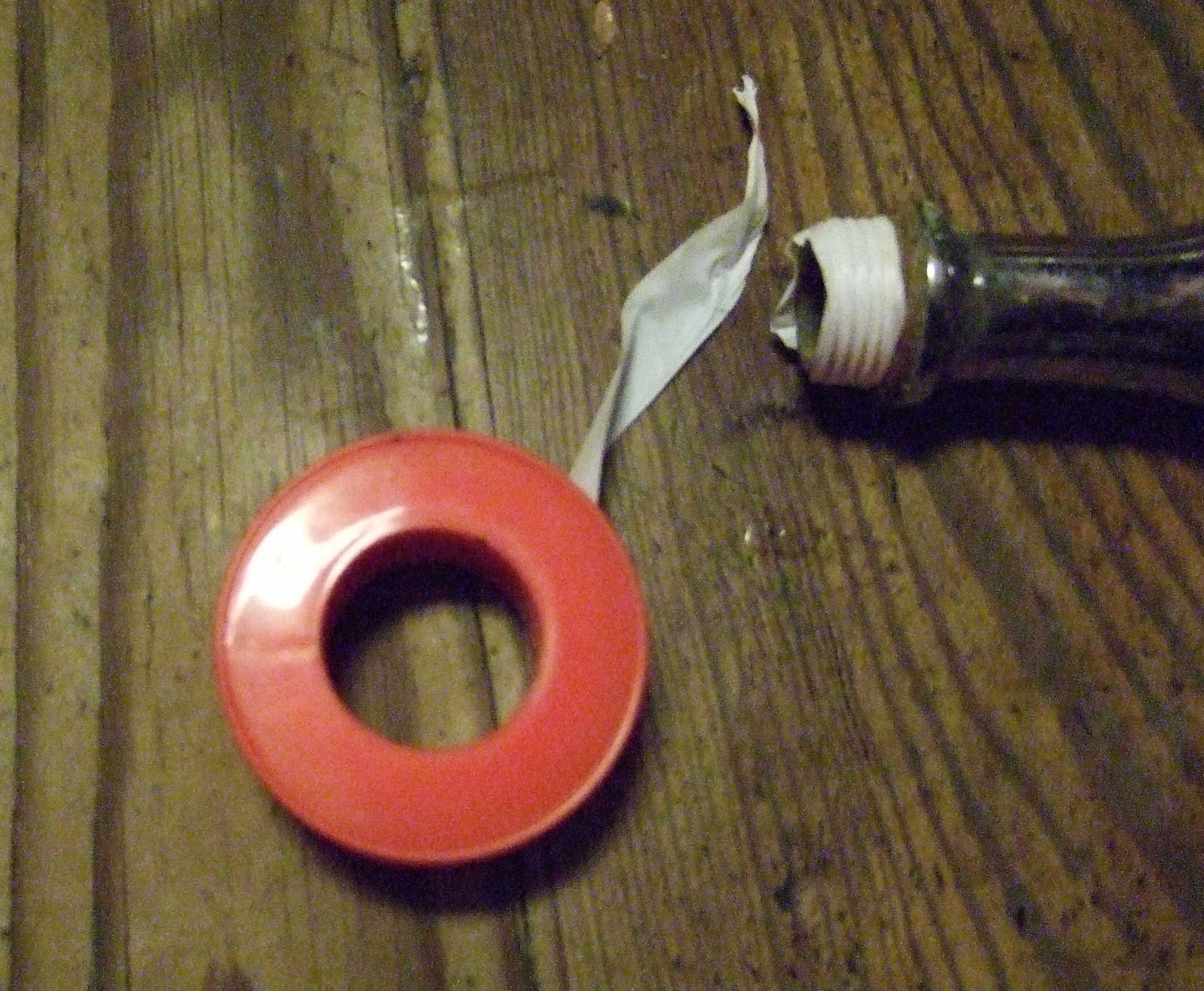 Thread tape (0,076 mm X 12 mm).